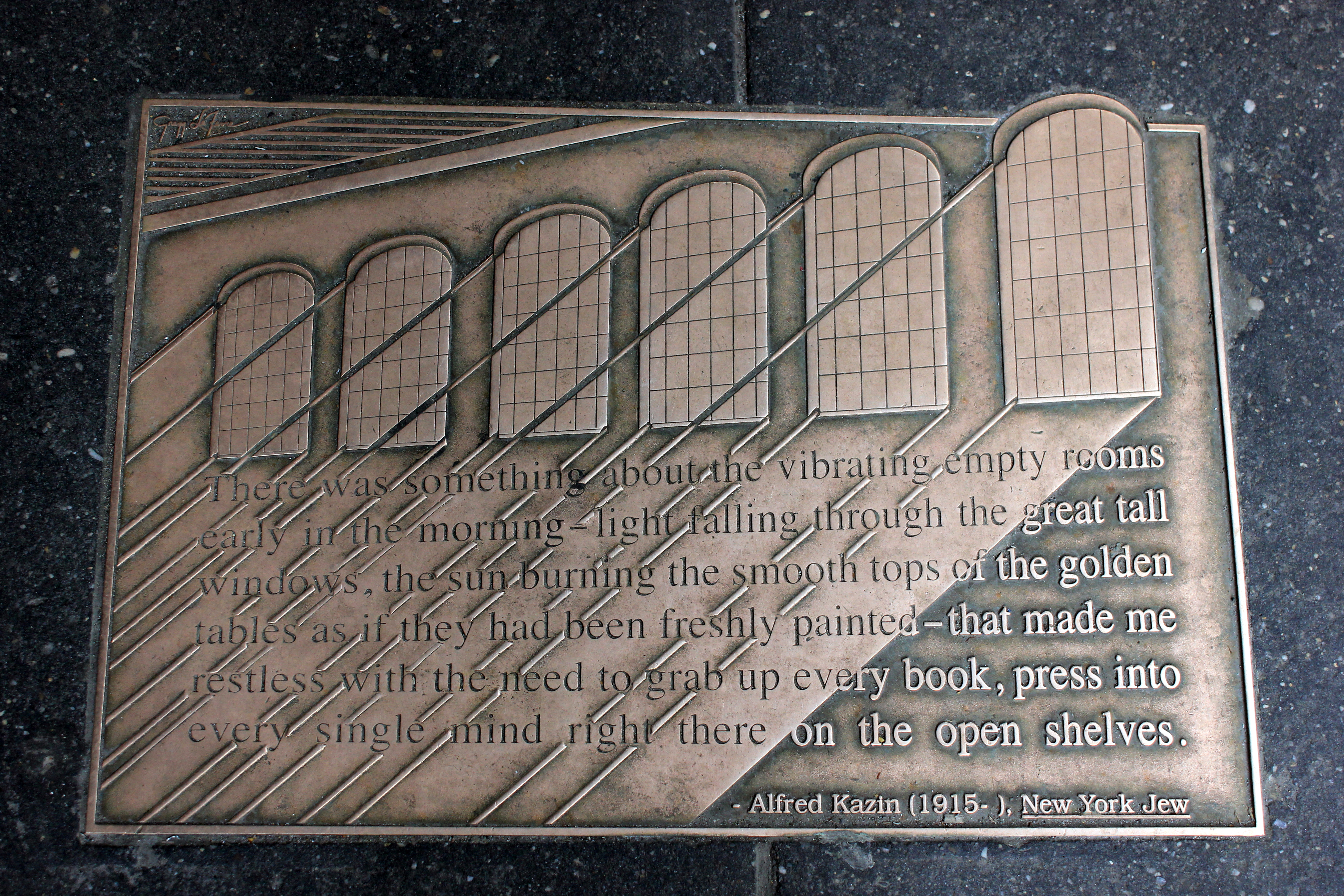 Library Walk New York City, excerpt from "New York Jew" about Room 315, NYPL, Main Reading Room.